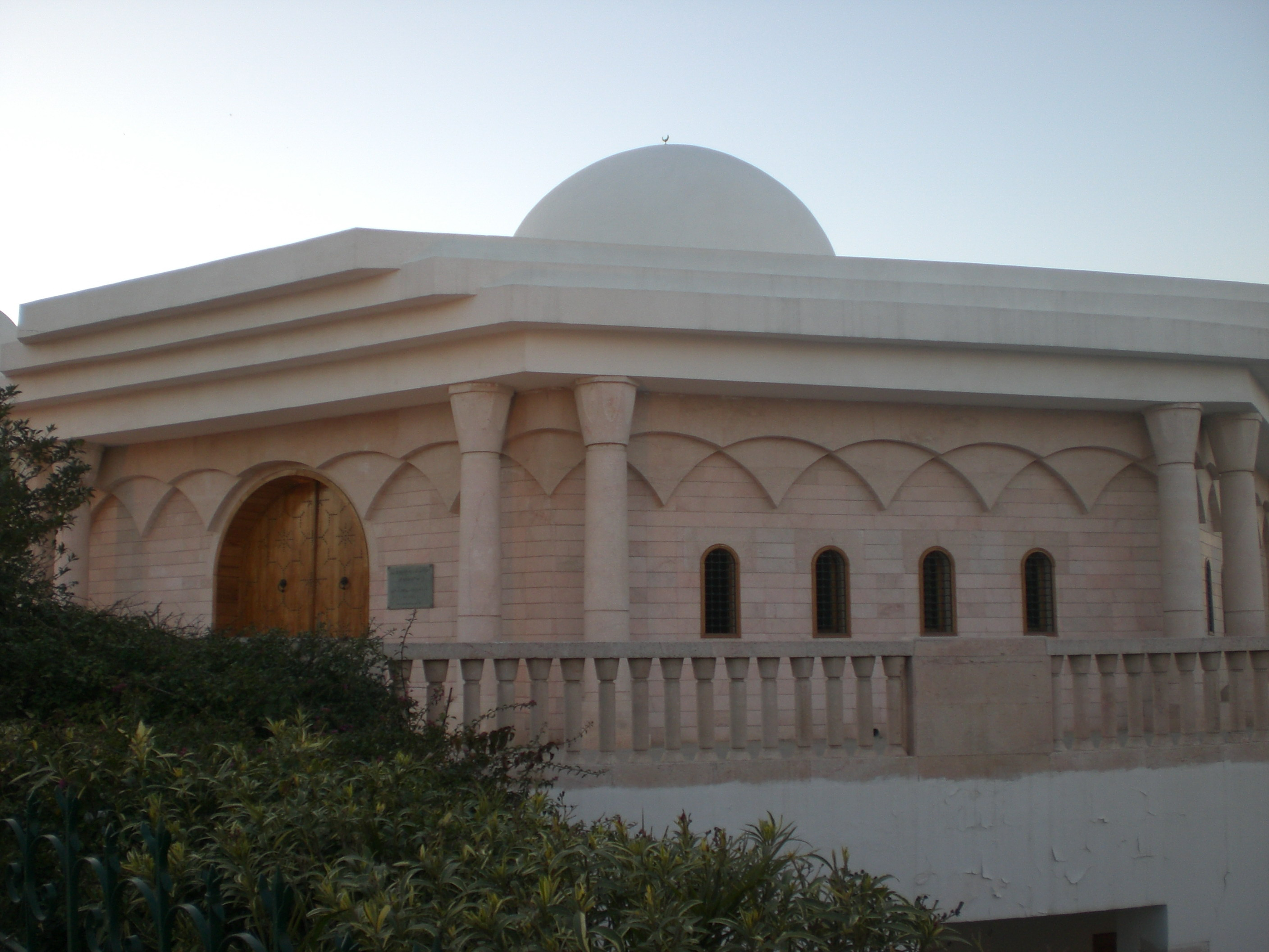 The mausoleum of Farhat Hached in Tunis